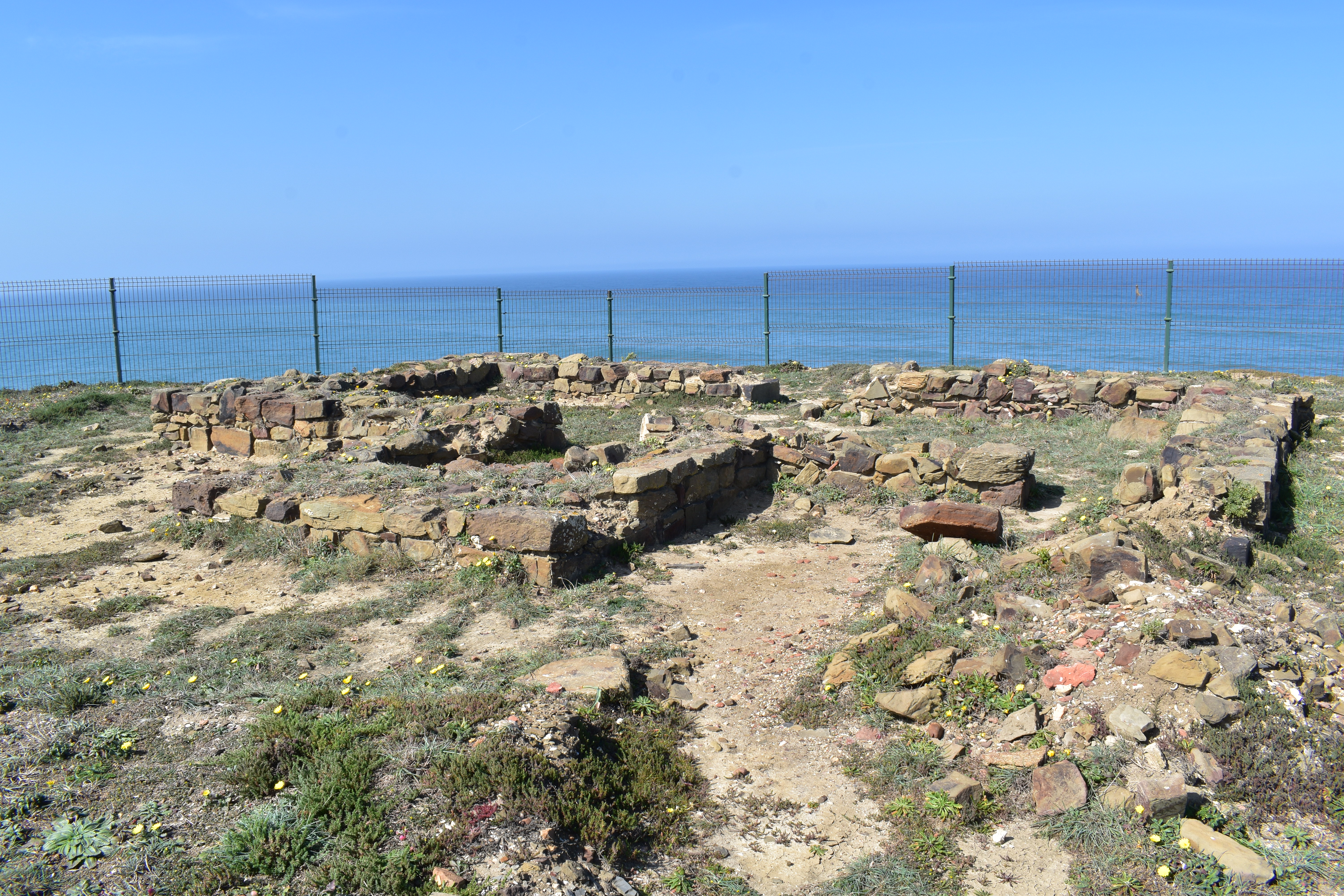 Sector III of the ruins of the Arrifana Ribat, in Algarve, Portugal.